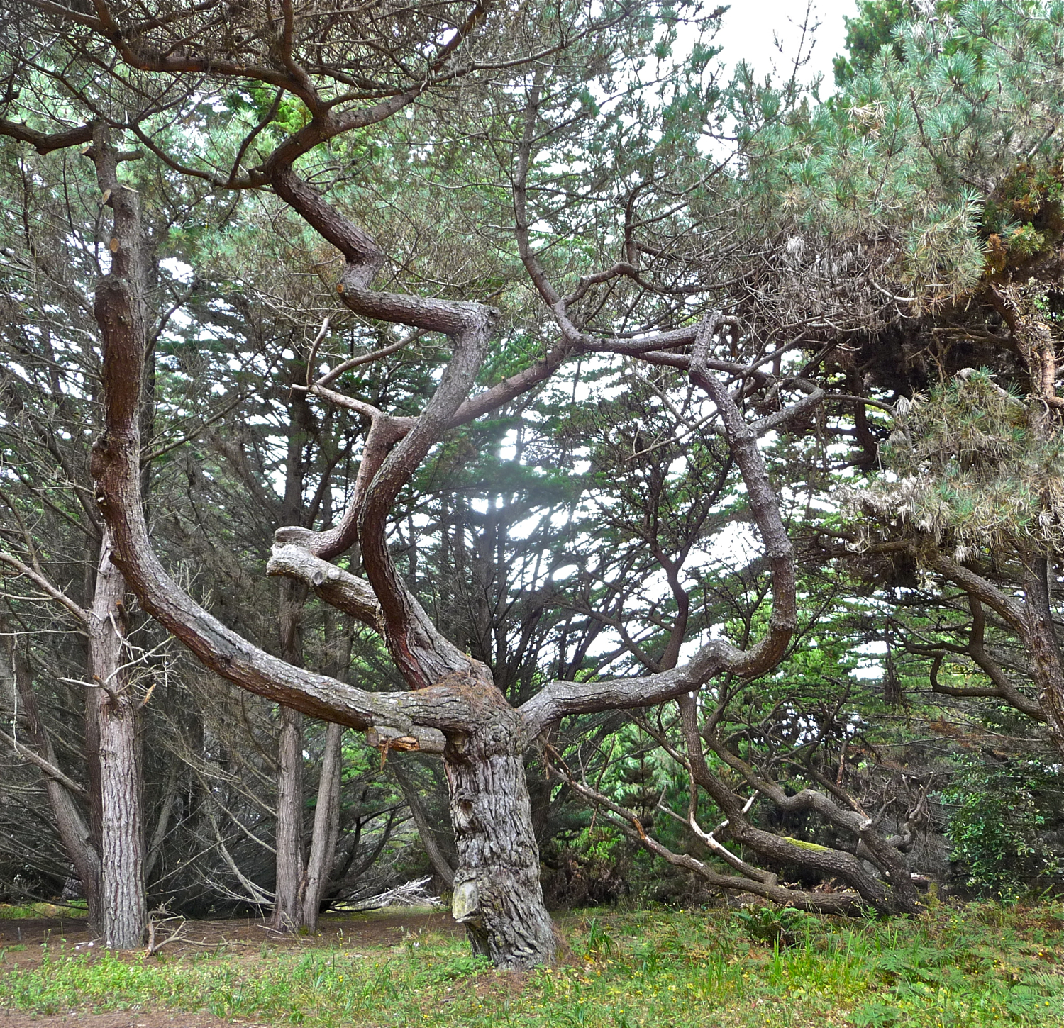 Twisted Pinus muricata, Mendocino, California